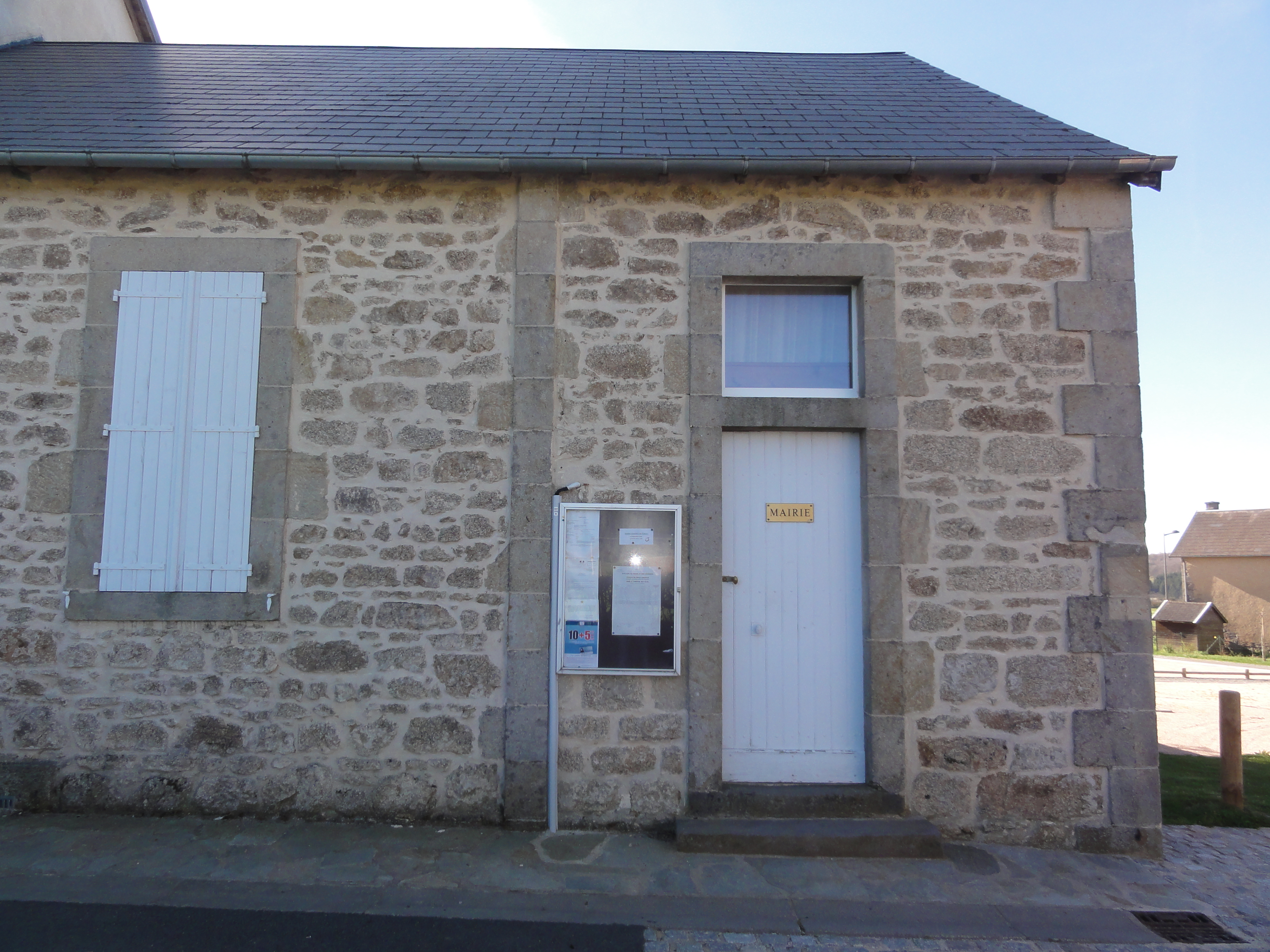 Saint-Julien-la-Geneste (Puy-de-Dôme) mairie